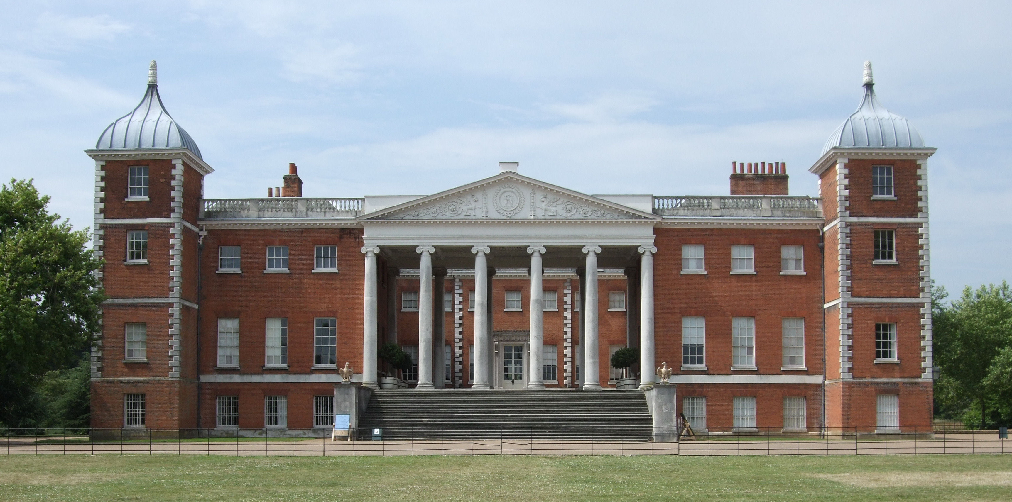 Osterley Park House, London, England.